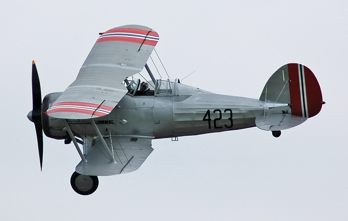 Gloster Gladiator I (The Shuttlewort Trust)